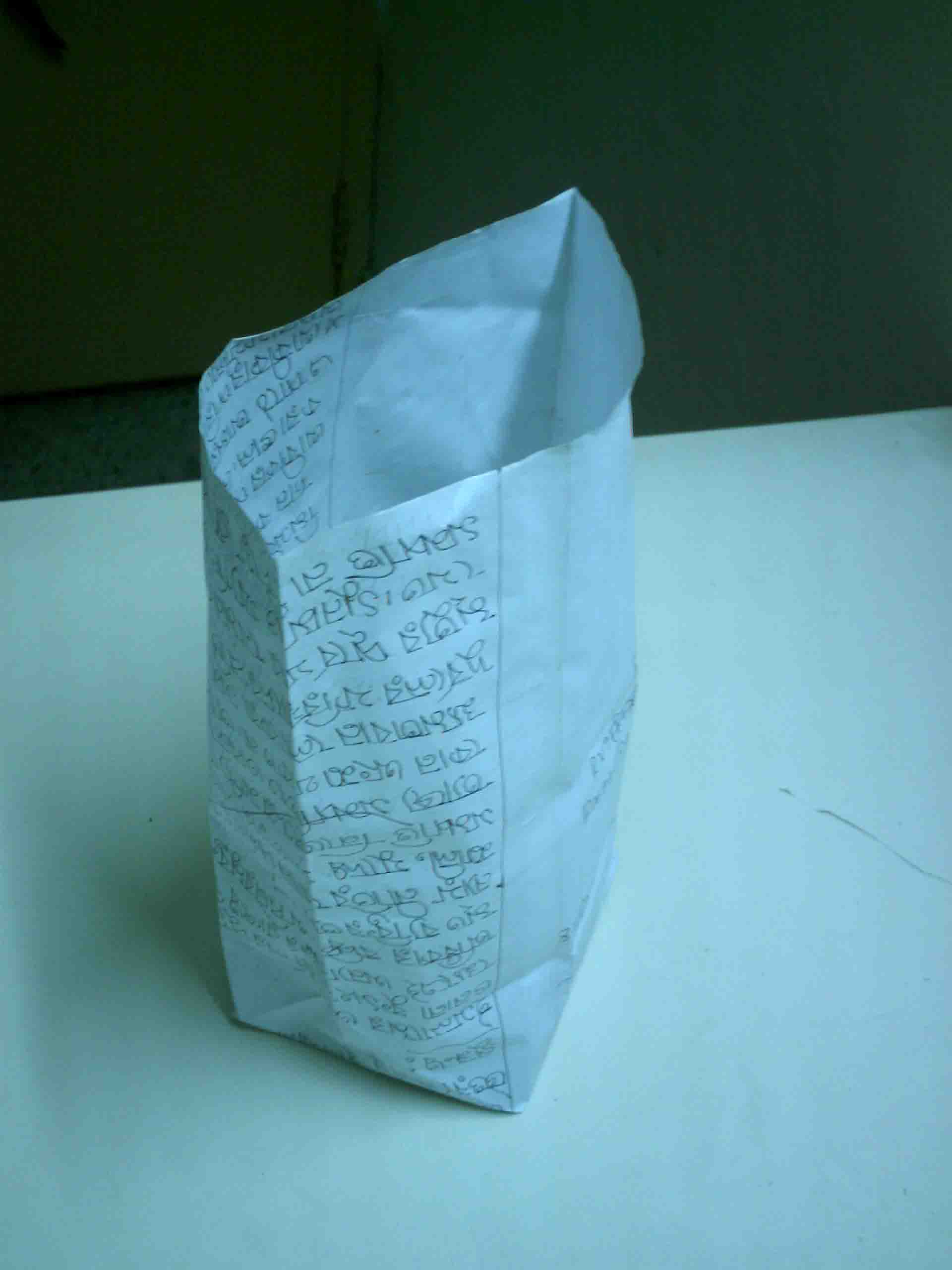 Description: Packet made of paper. Used in South Asia.